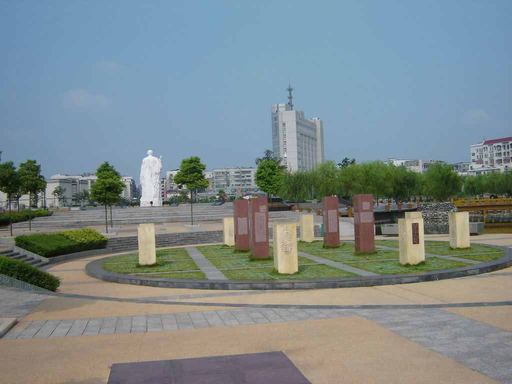 by efm position:baishi park, xiangtan city date:jul 2005